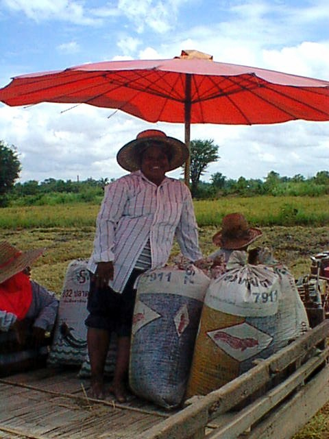 Rice gathered on farm in Ban Sam Ruen, Phitsanulok, Thailand